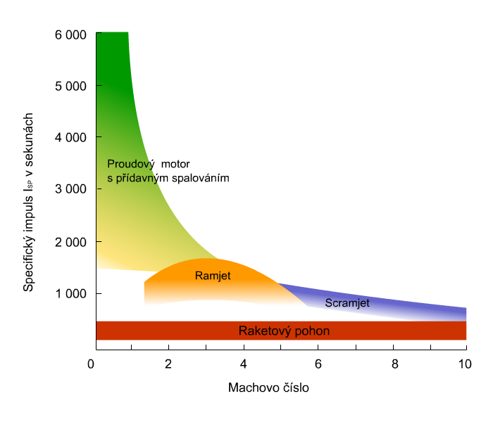 Specific impulse